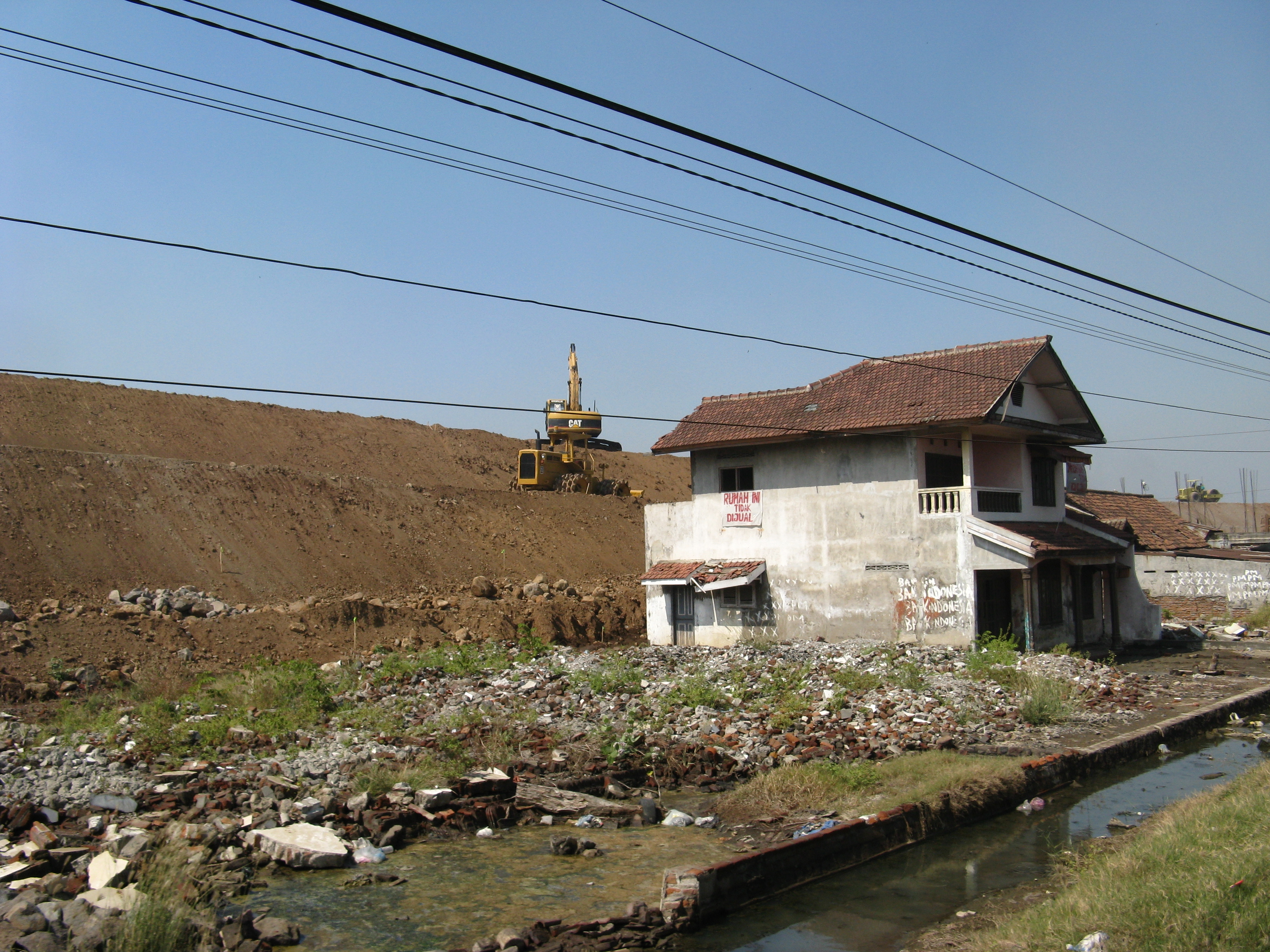 Location: Sidoarjo mud flow.